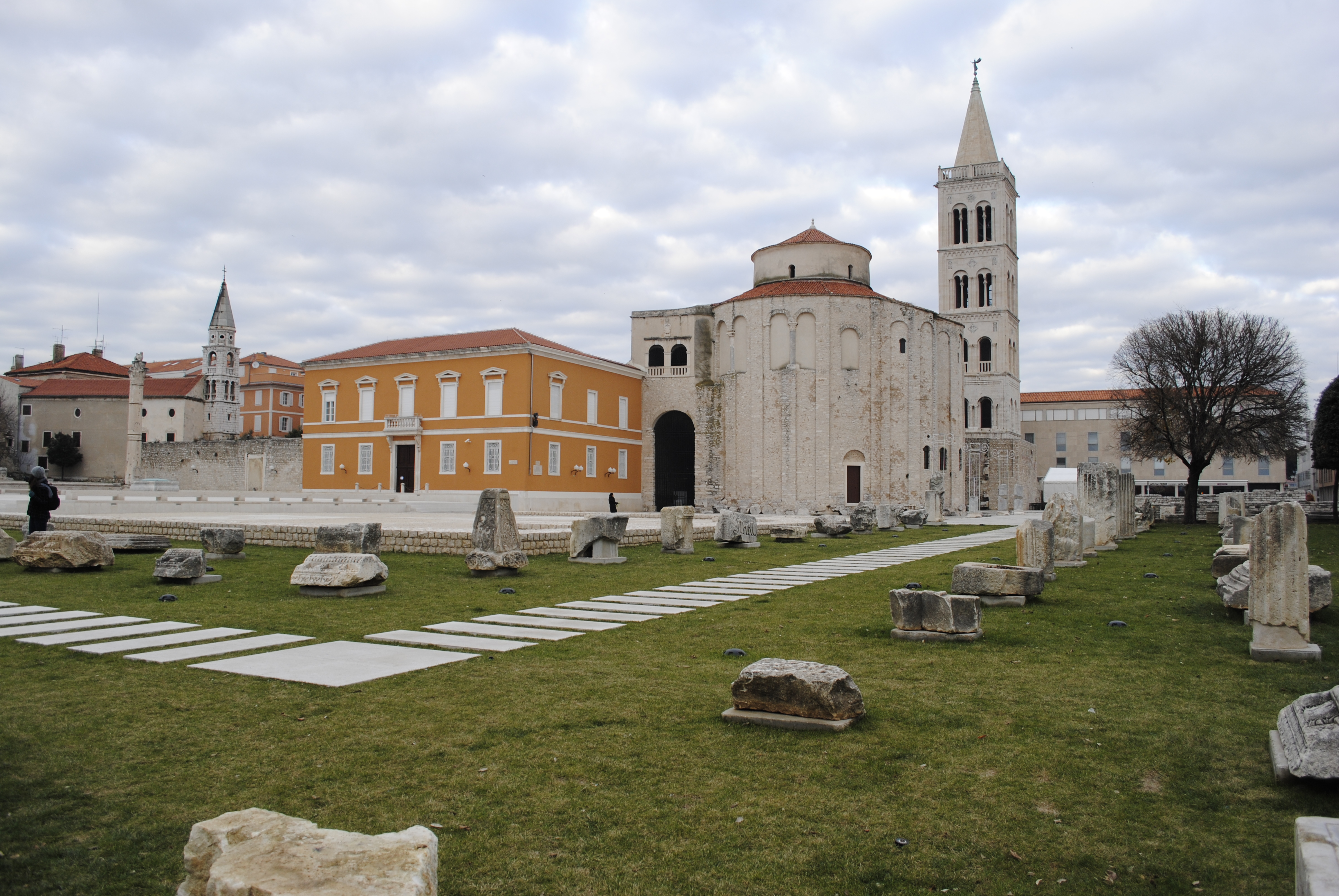 The Roman forum remains in Zadar, Croatia